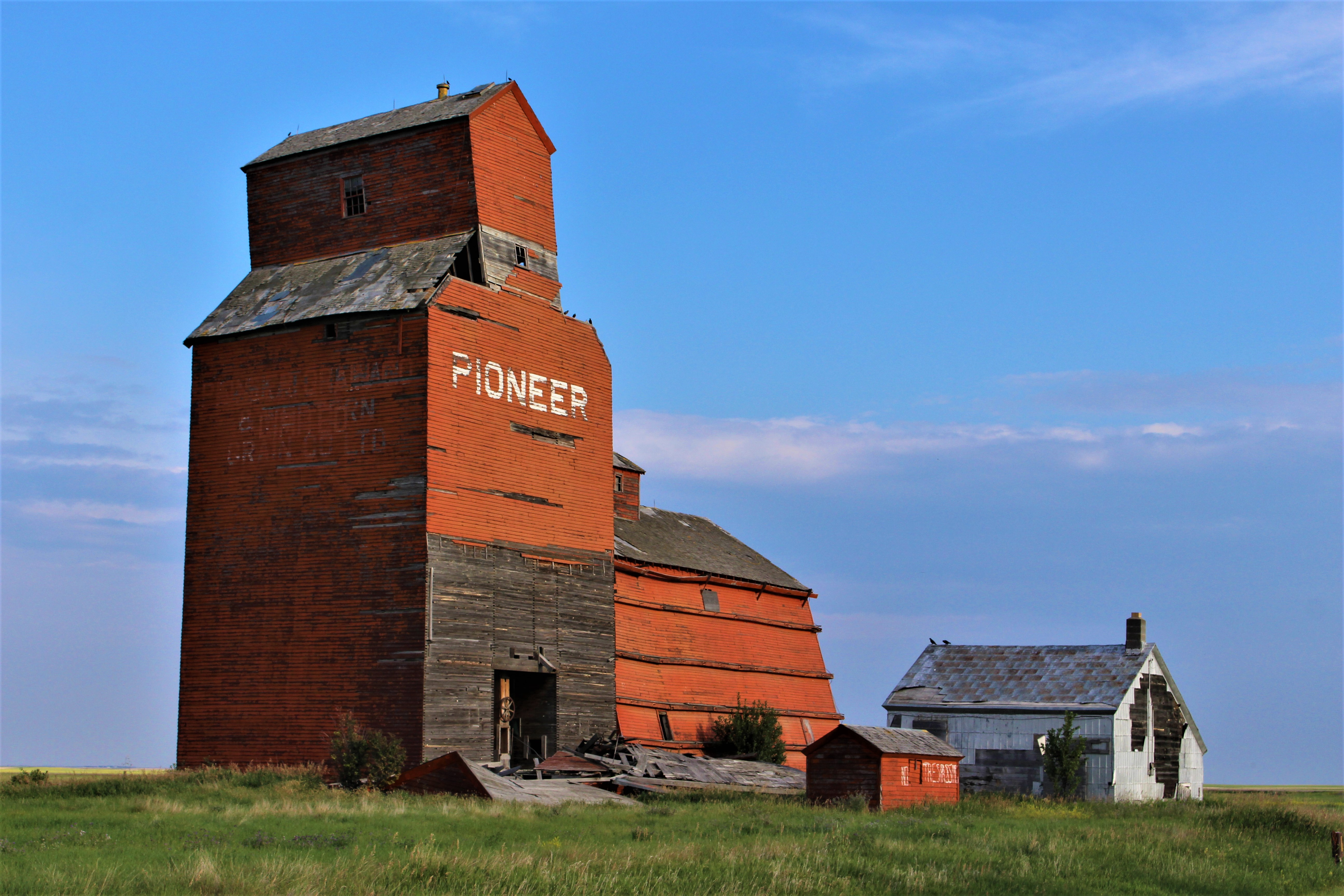 Vacant Pioneer Grain Co. elevator in White Bear, Saskatchewan, Canada. This elevator was destroyed by lightning in 2017.